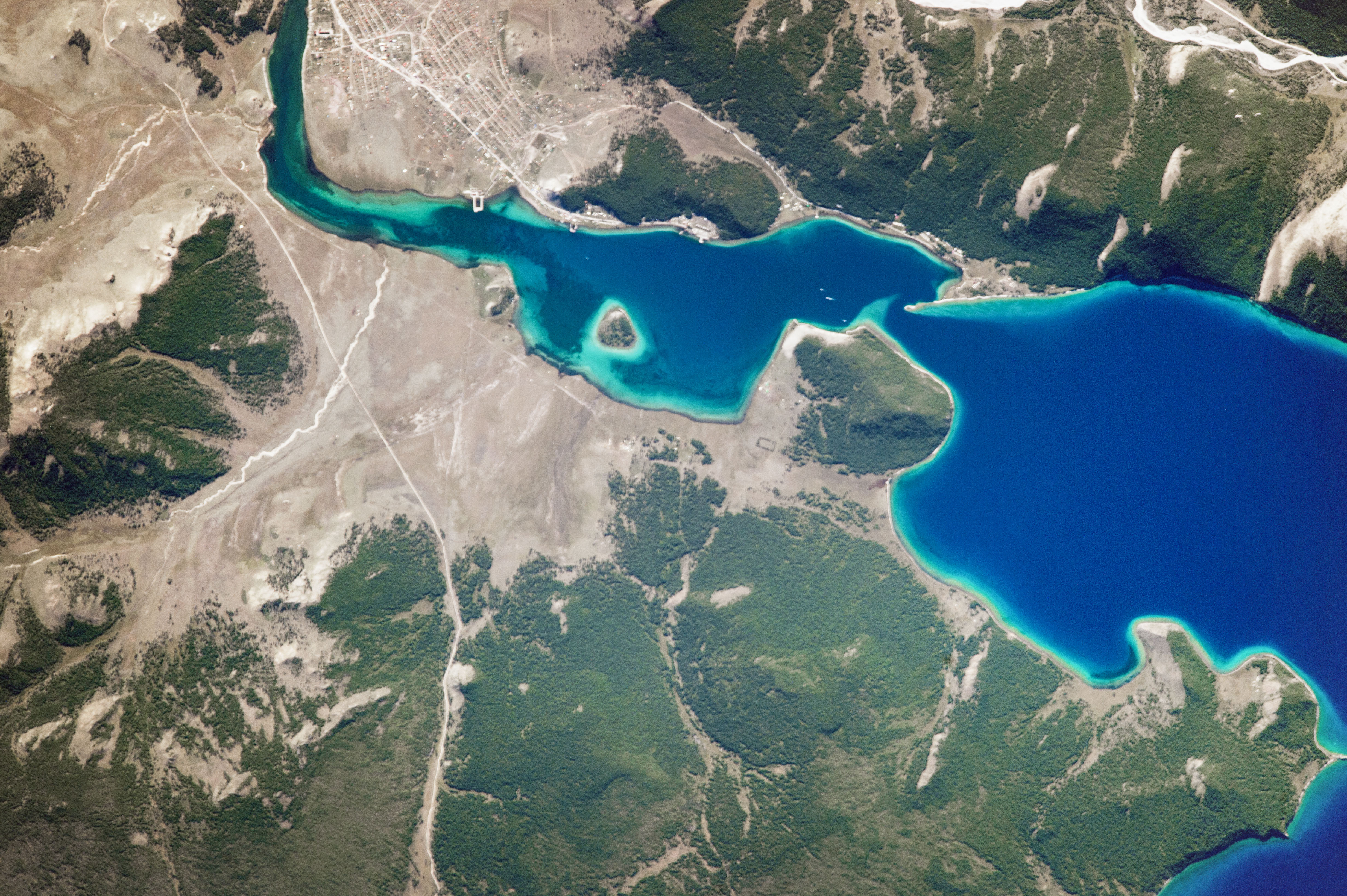 An astronaut on the International Space Station captured this photograph of the southern tip of Lake Khuvsgul (also known as Lake Hovsgol or Hovsgol Nuur) in north central Mongolia. Referred to as the “younger sister” of Lake Baikal, Khuvsgul is approximately 137 kilometers (85 miles) long and is the largest fresh water lake in Mongolia by volume. (Note that north is to the lower right in this image.) Several rivers and streams flow down from higher elevations (including the Sayan Mountains) and into Lake Khuvsgul. The Egiin River is the only outflow, ultimately carrying water to Lake Baikal through the Selenga River. Together, the two lakes hold more than 20 percent of Earth’s fresh surface water. The different shades of blue indicate different water depths—the deeper the blue, the deeper the water. Boreal forests (also referred to as taiga) cover the mountain slopes, while several streams cut through the forest and flow into the lake. Hatgal, a village with less than 4,000 inhabitants, sits on the lake shore and makes up most of the population in Khuvsgul Province. The lake and its surroundings are part of 11,803 square kilometers (4,557 square miles) of protected land designated as Lake Hovsgol National Park.